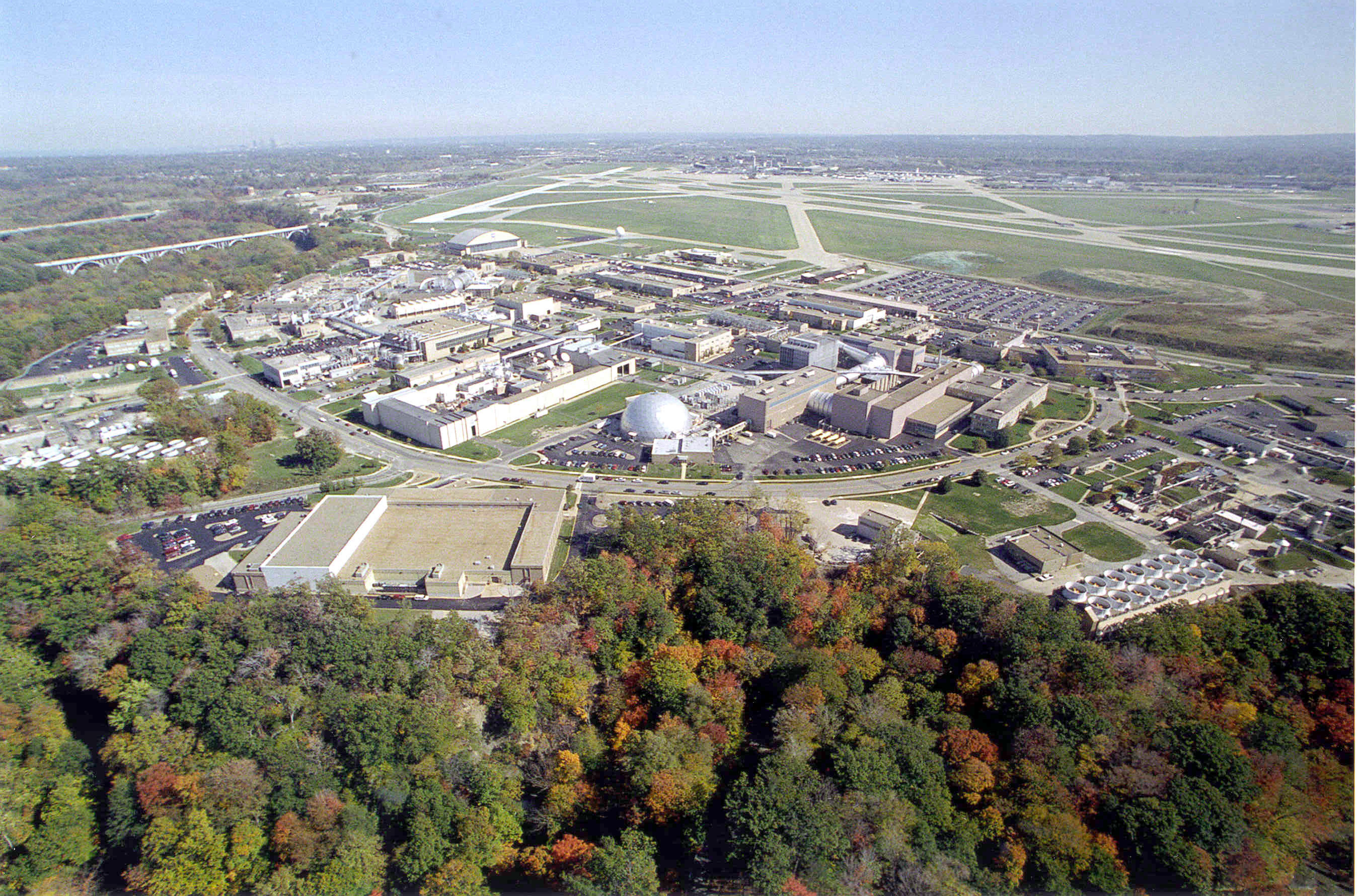 An aerial view looking northeast towards Cleveland's Hopkins Airport. This is the NASA John H. Glenn Research Center at Lewis Field, Cleveland, Ohio.